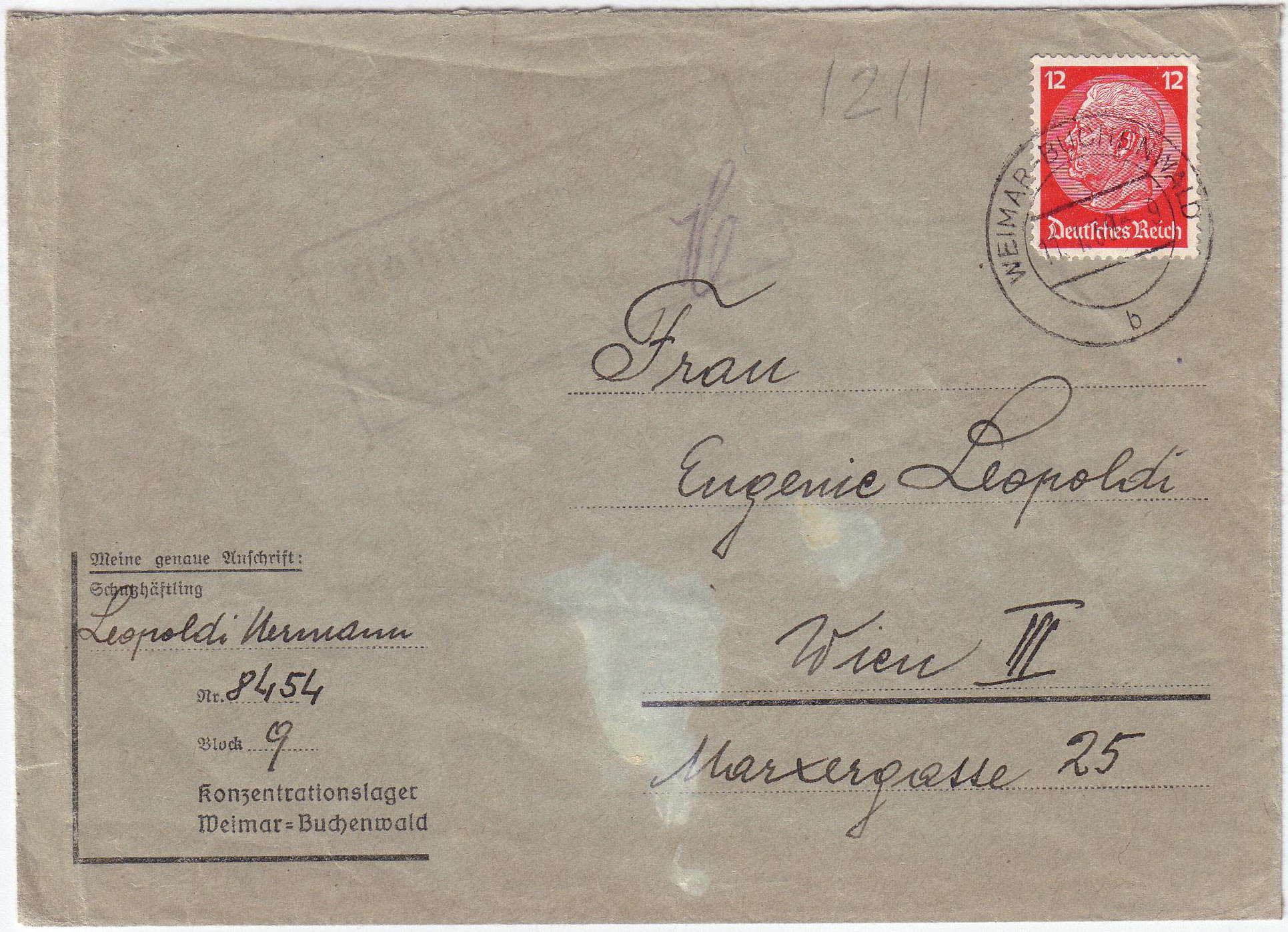 Old letter cover from the Buchenwald concentration camp, 1939.